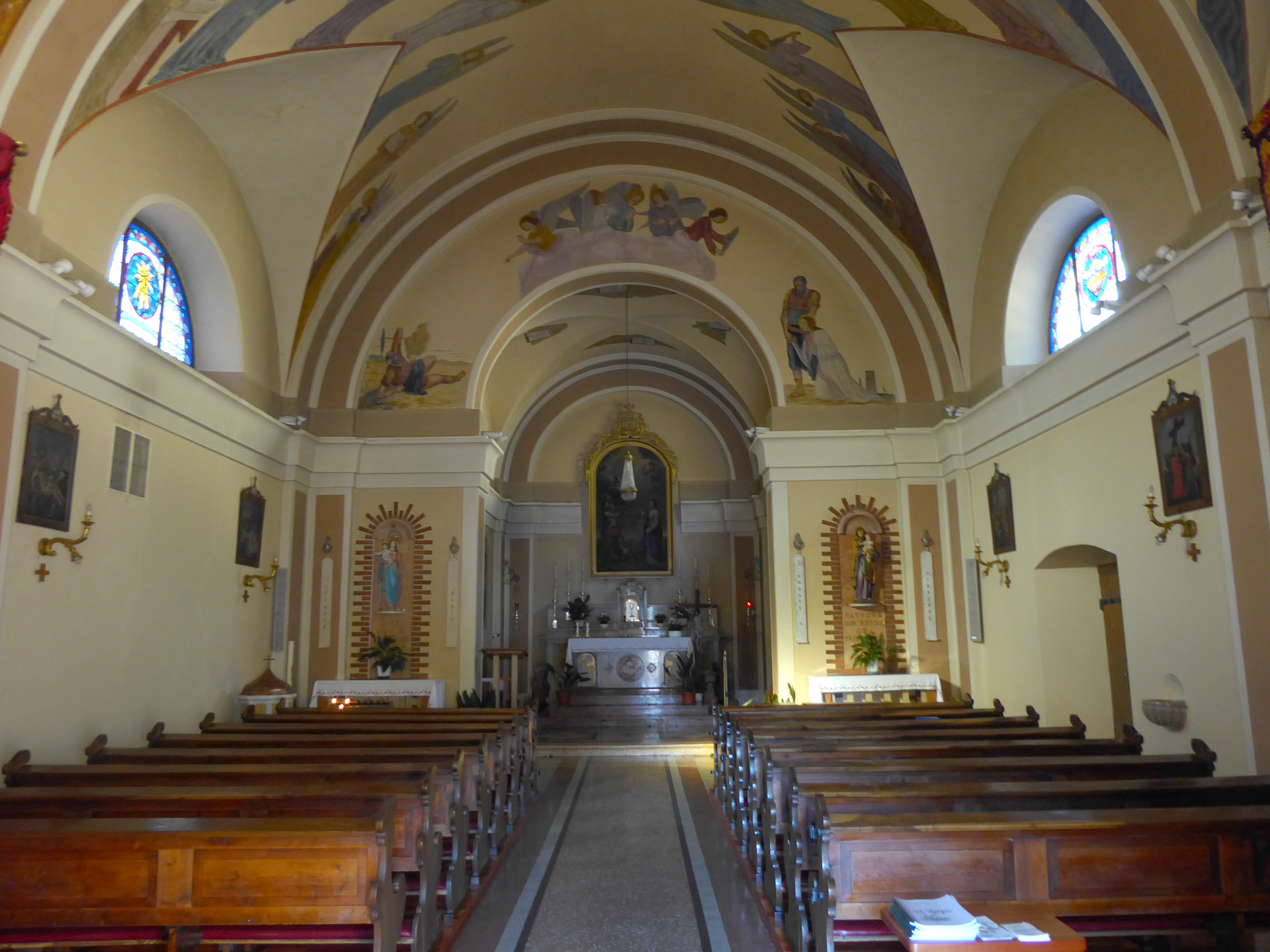 St Barbara's church in Piscine (Sover, Trentino, Italy)